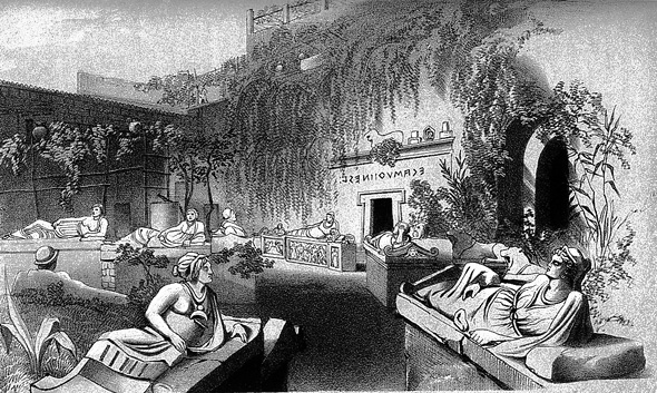 CAMPANARI'S GARDEN, TOSCANELLA